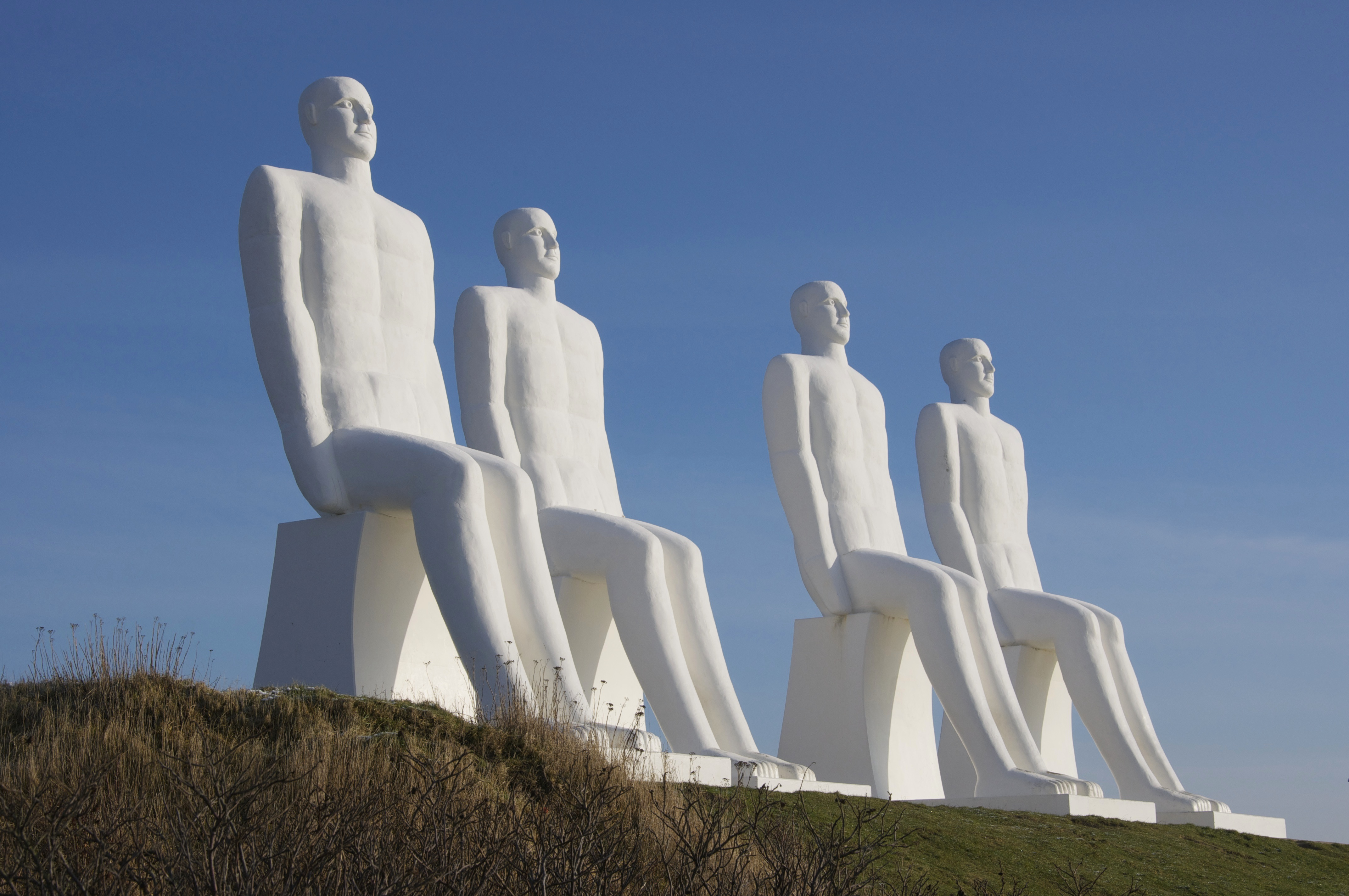 Svend Wiig Hansens sculpture "Mennesket ved Havet", Man by the Sea. The white men are 9 m tall and was raised to celebrate 100 years as independent municipality for Esbjerg in 1994.